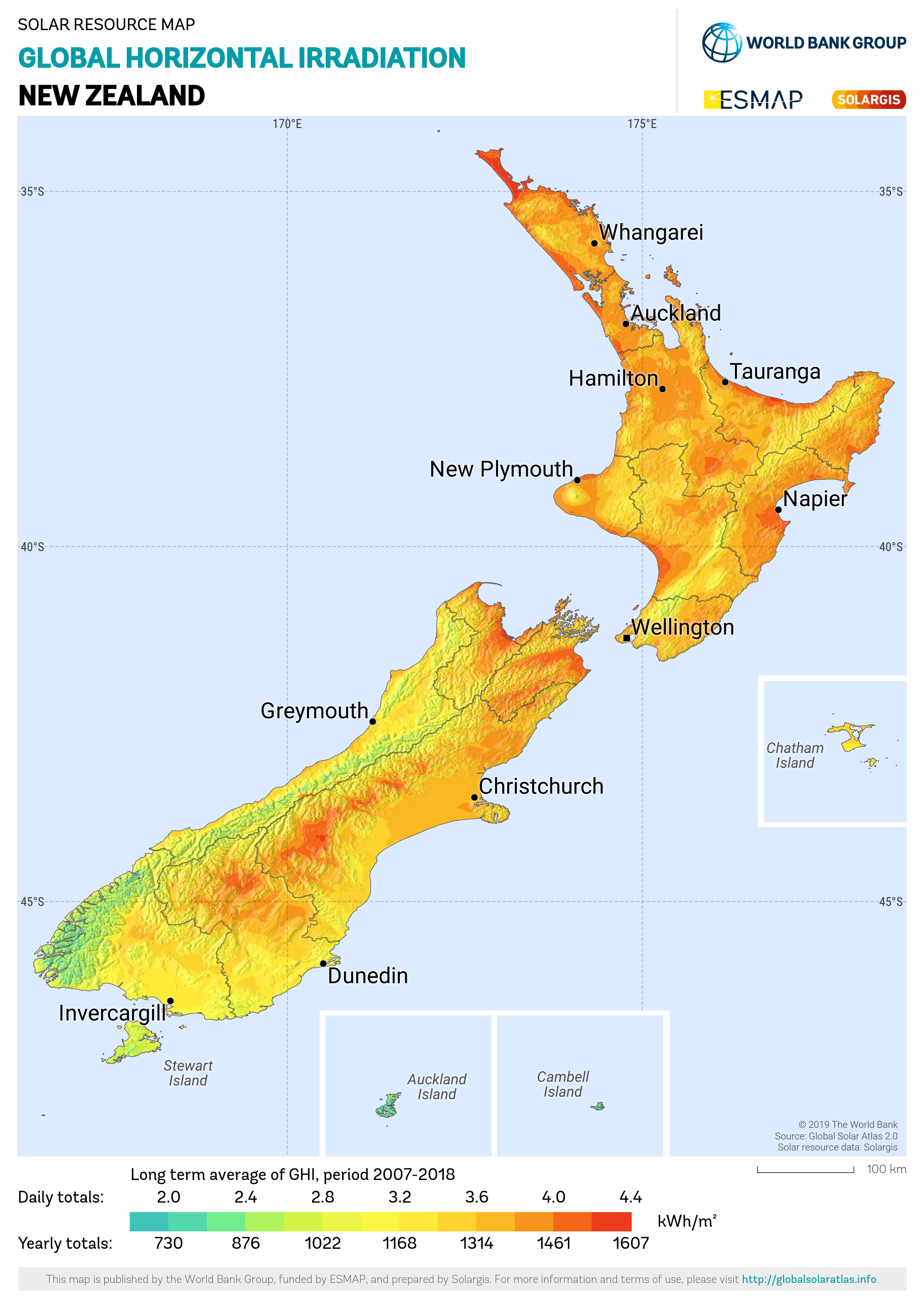 Global horizontal irradiation of New Zealand